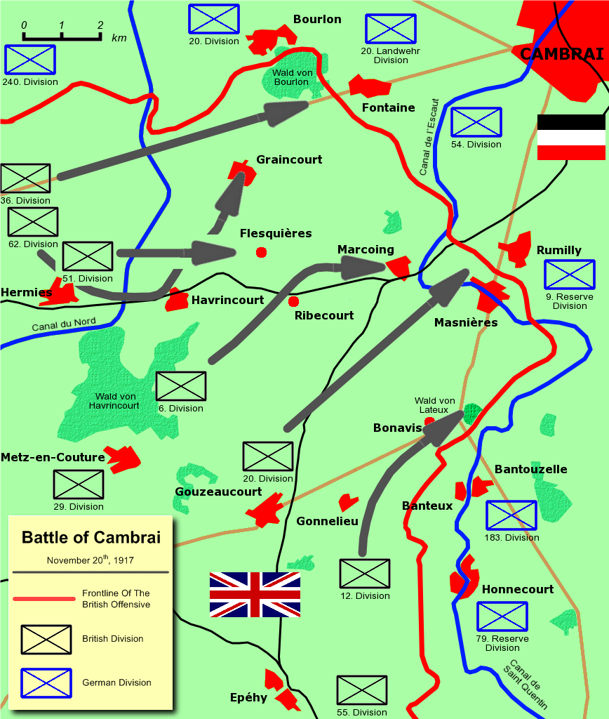 Description: Map of the Battle of Cambrai - British Offensive, english text Source: self-made by User:W.wolny Low-Res-Version: Image:509px-Schlacht von Cambrai - Truppen GB-Angriff.png Painter: W.Wolny Retouch: Uv1234